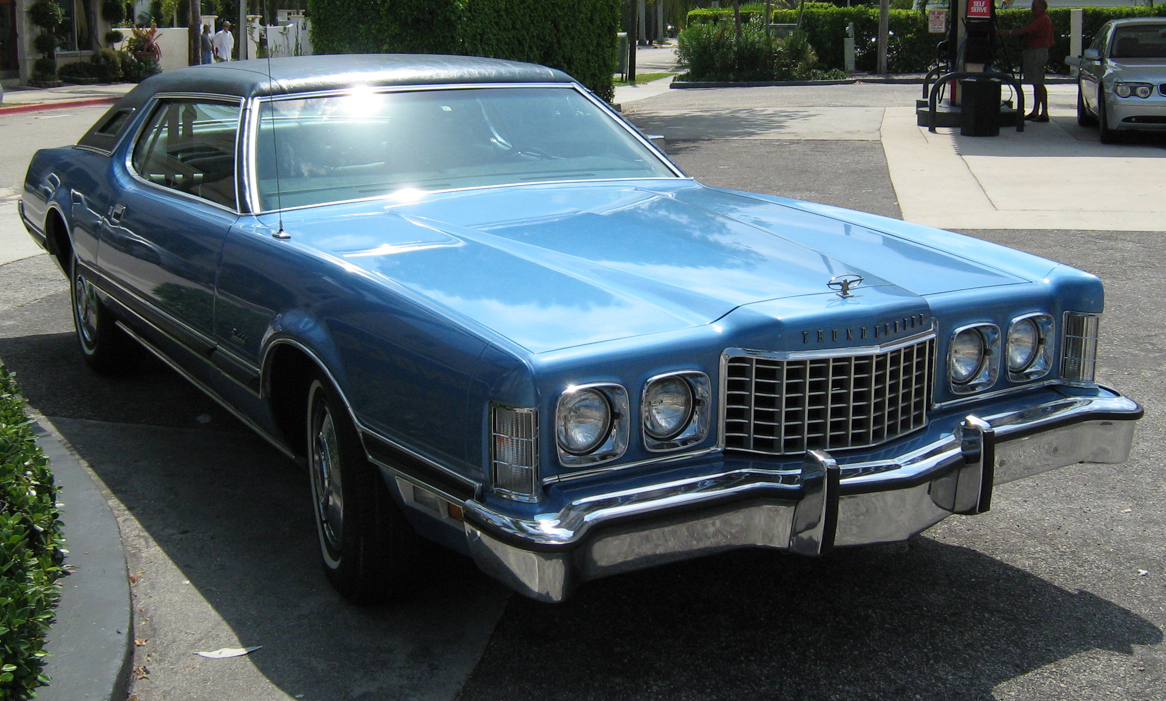 1973 Ford Thunderbird finished in blue - front view. Photographed in Palm Beach, Florida.